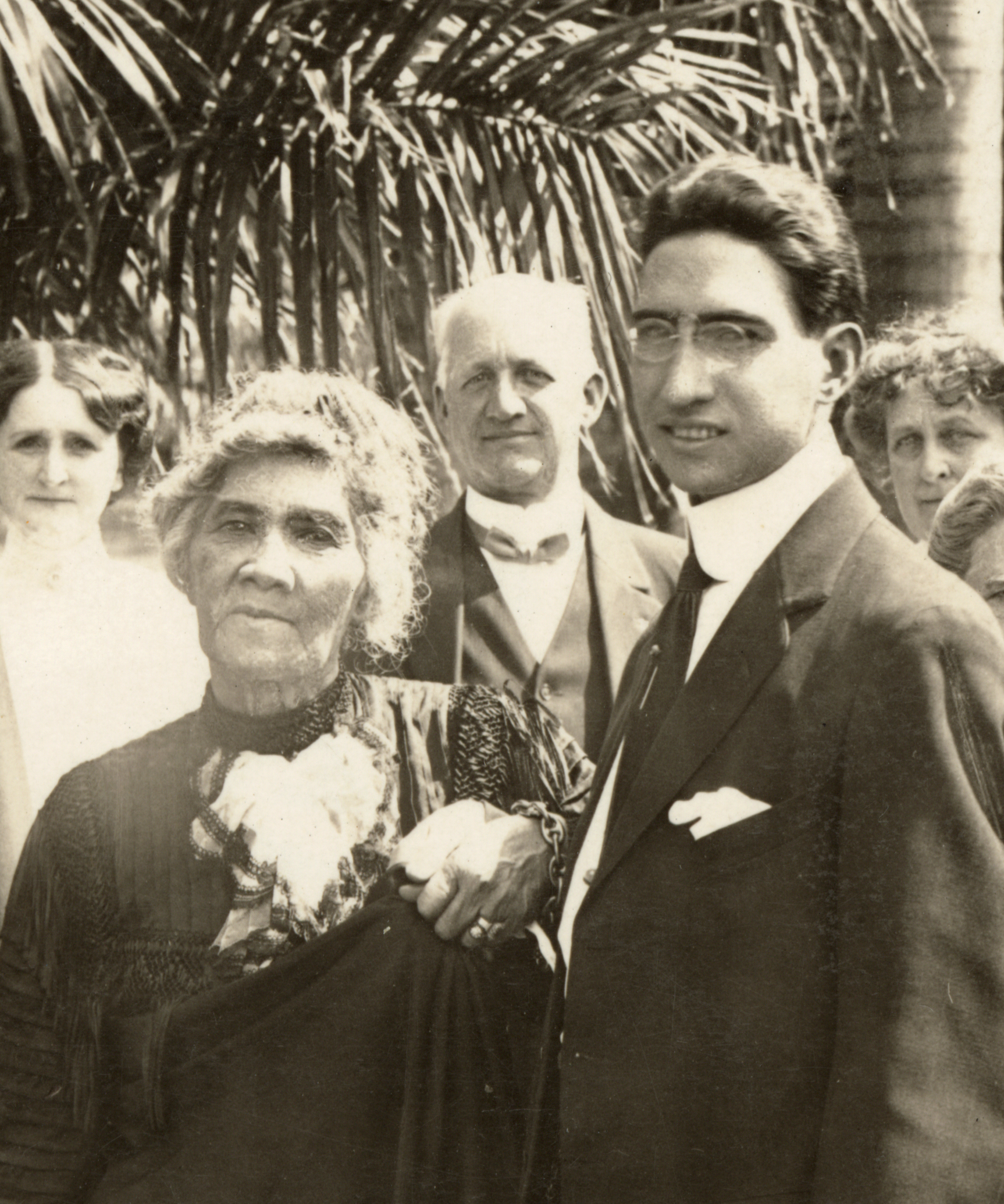 The Honourable Mr. John ʻAimoku Dominis with HM Queen Lili'uokalani.